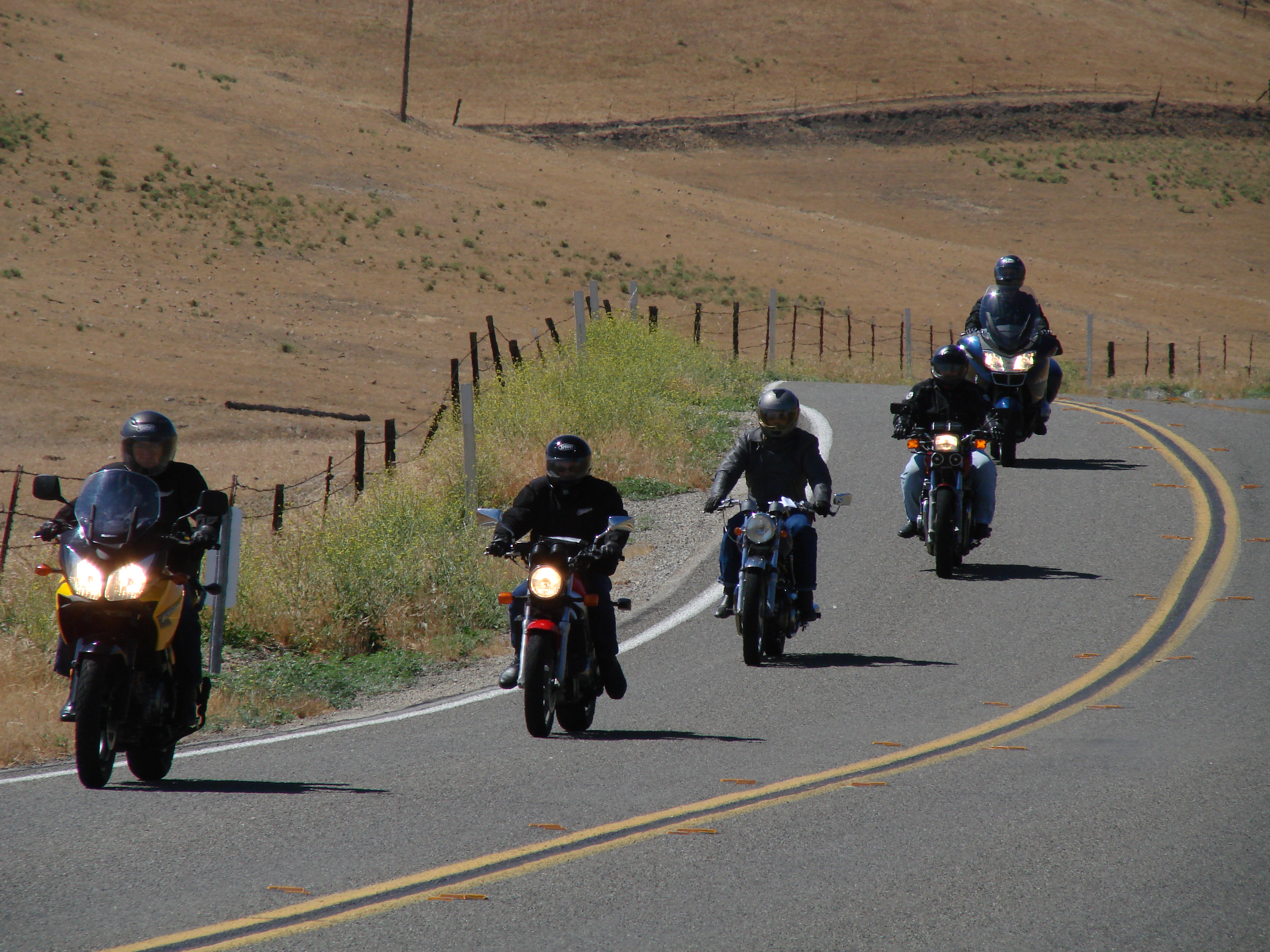 Southern California Norton Owner's Club Cambria Ride, on Highway 41 near Creston, CA